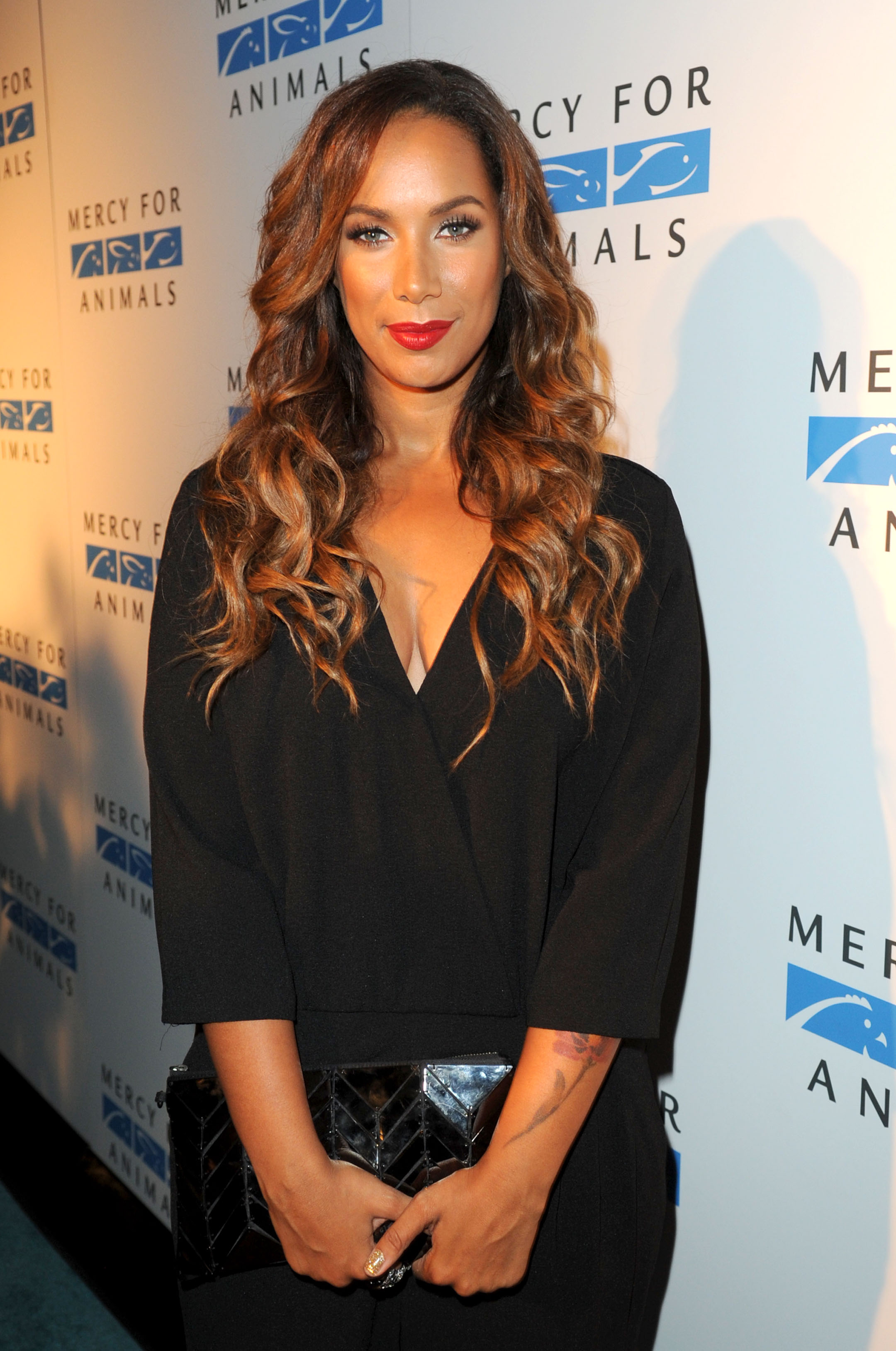 Leona Lewis in 'Mercy For Animals' charity event in Los Angeles in 2014.